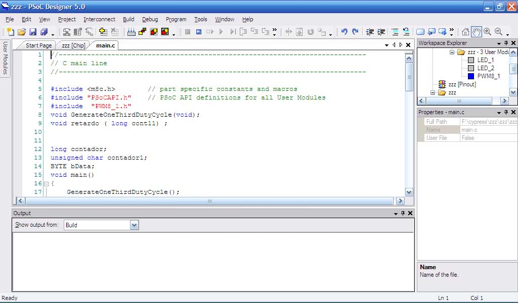 scrennshot psocdesigner c editing